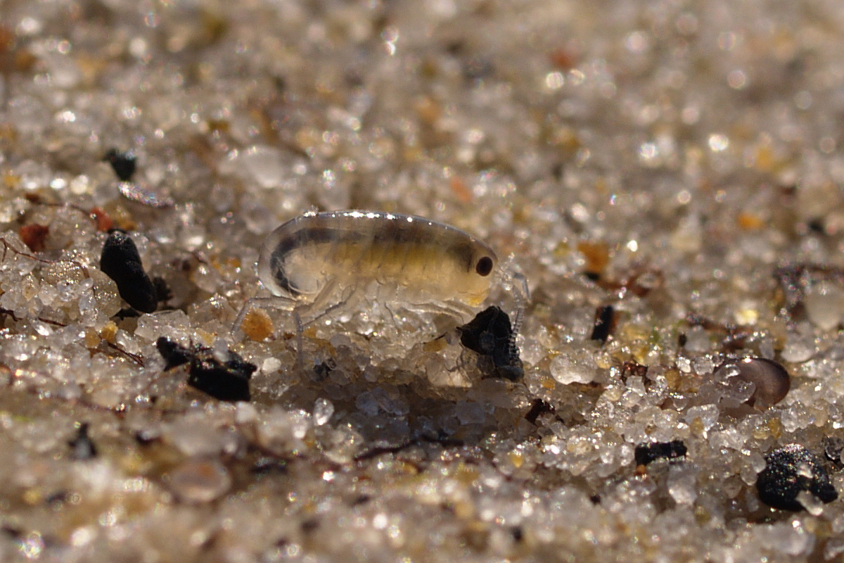 Talitrus saltator, a young one, at the beach of Baltic Sea at Bornholm island